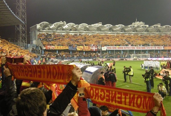 Montenegrin fans at match between Montenegro and Italy in Podgorica